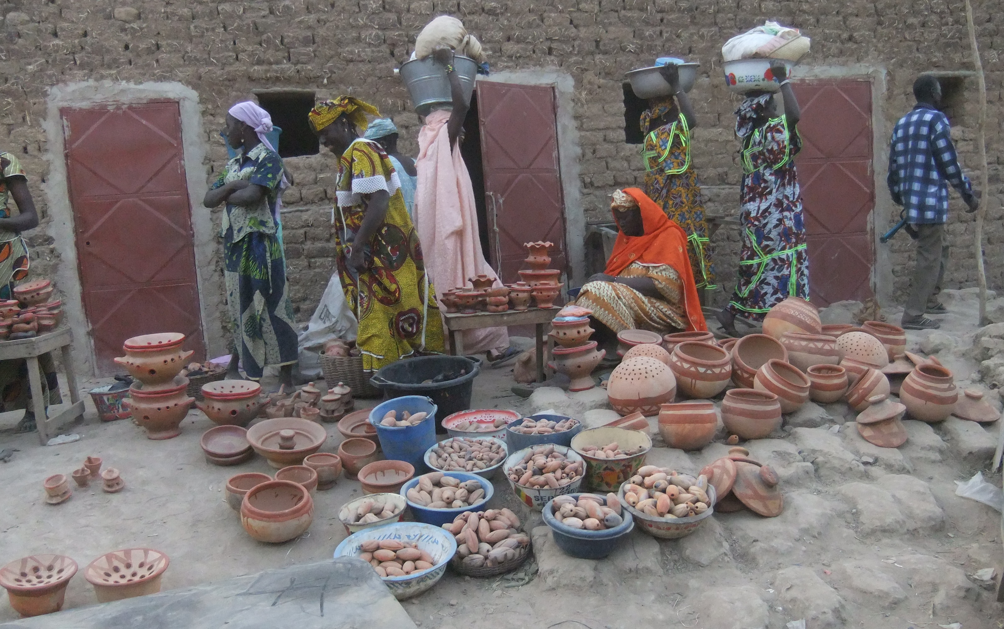 Djenne, Mali This is an image of "African people at work" from Mali